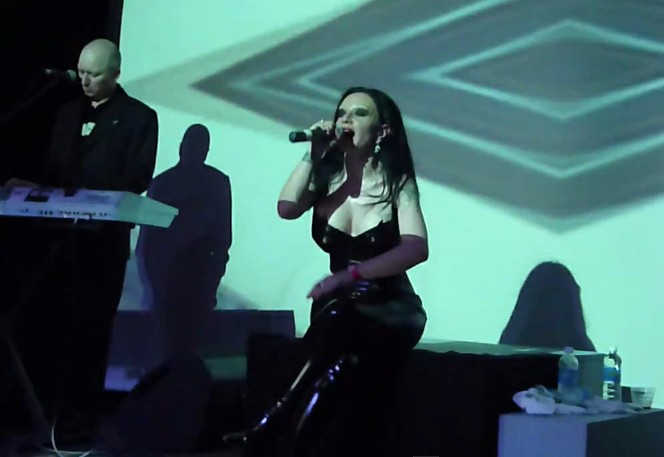 Fangoria (Alaska y Nacho Canut) en una actuación de la Gira Absolutamente.